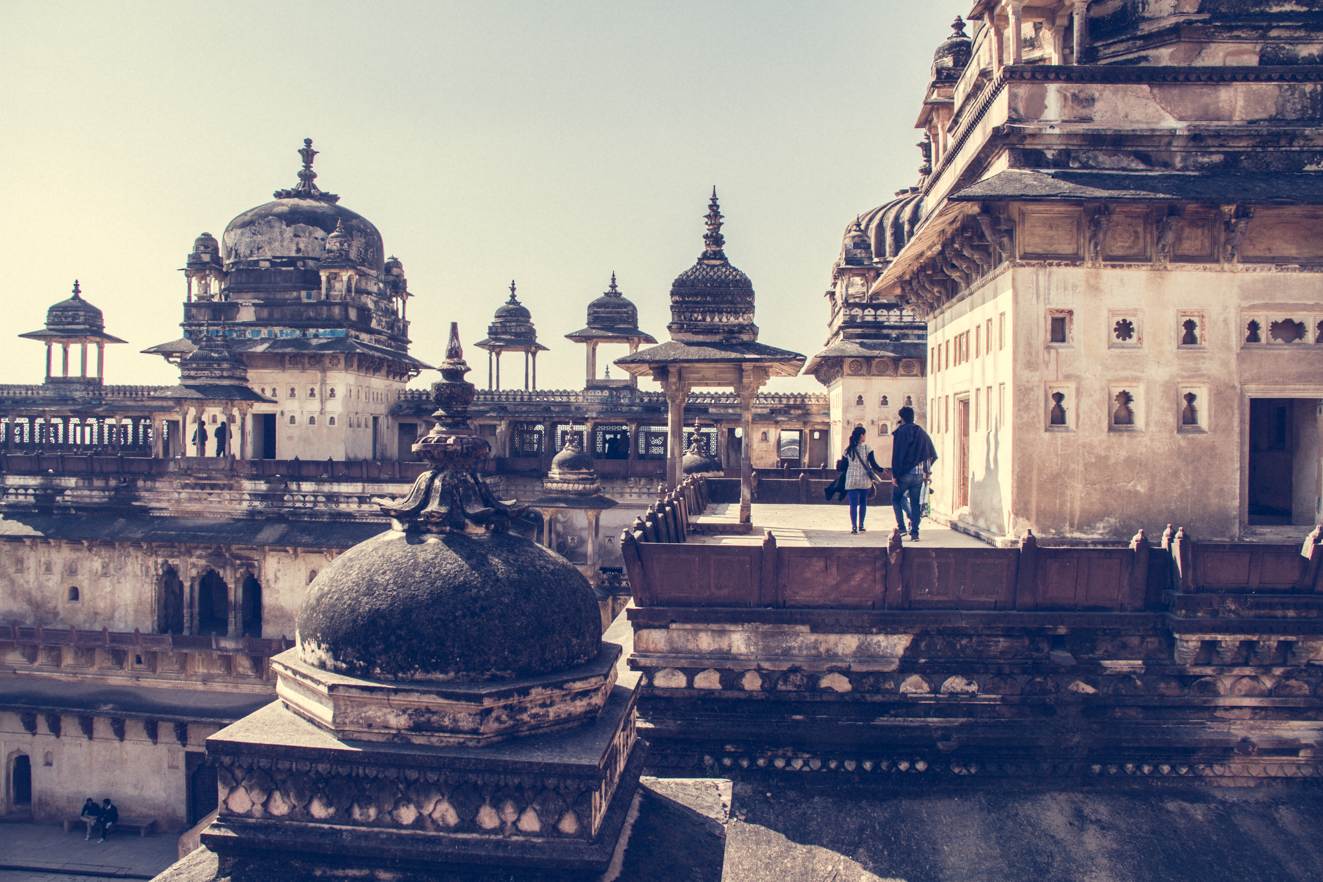 Jahangir Mahal